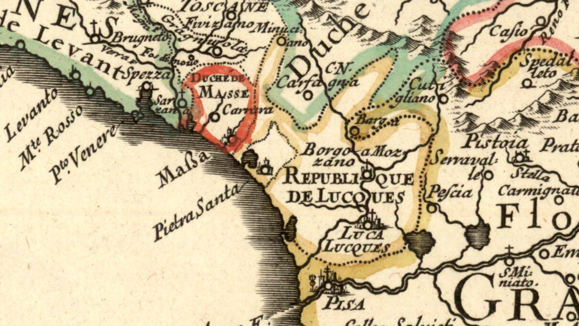 Detail of a French map of Italy published in the seconf hald of the 17th century showing the territory of the Republic of Lucca ("République de Lucques"). The enclave of Pietrasanta belonged to the Grand Duchy of Tuscany. Lucca was bordered to the northwest by the Duchy of Massa-Carrara, to the north by the Duchy of Modena, and to the east and south by the Grand Duchy of Tuscany. The map was designed by Guillaume Sanson and published in Paris by Hubert Jaillot in 1672. Title of the map: L'Italie divisée suivant l'estendue de toutes ses souverainetés: qui sont les Estats de l'Eglise, du Roy-Catholique qui comprennent les Royaumes de Naples, de Sicile, de Sardaigne, le Duchfé de Milan &c.